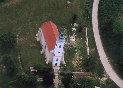 Túrony, Hungary, aerialphotography